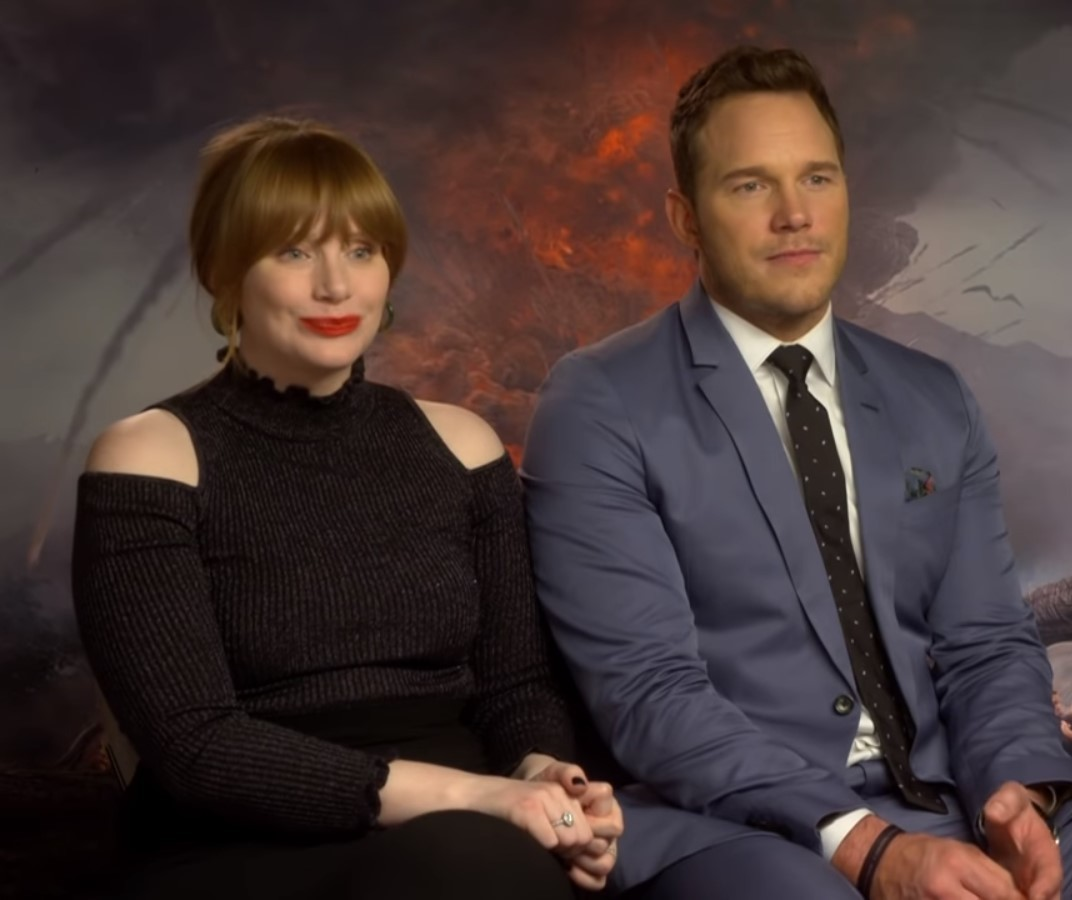 Chris Pratt, Bryce Dallas Howard, Jeff Goldblum, director J.A. Bayona, and writer Colin Trevorrow reveal the moments that made them LOL behind the scenes, and what it was really like to film the movie’s most surprising scenes.